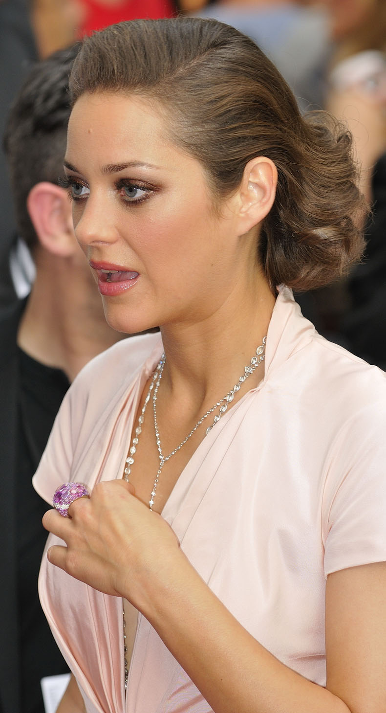 Marion Cotillard during the Paris premiere of Public Enemies at the cinema UGC Normandie